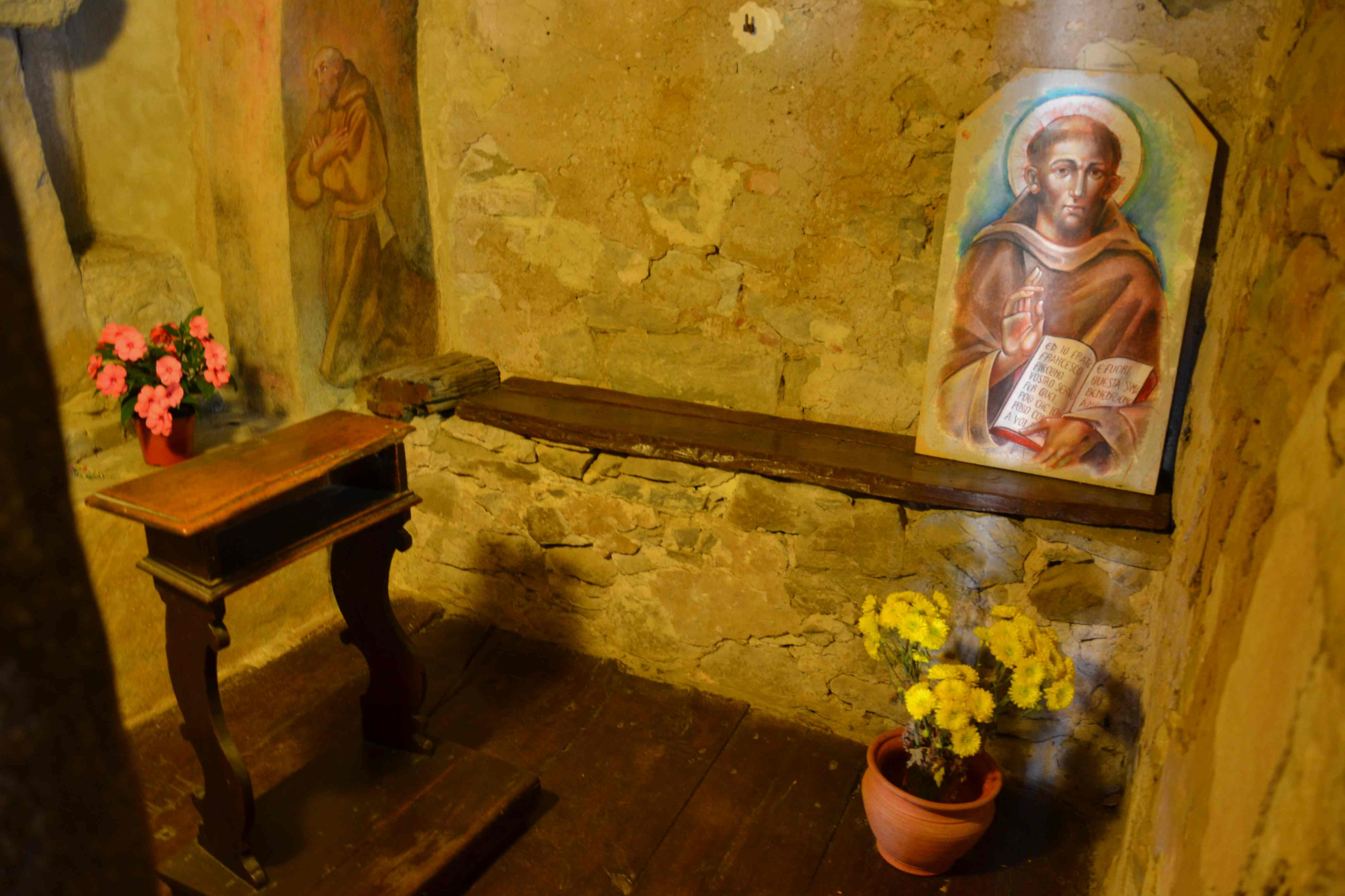 The room of Franz from Assis